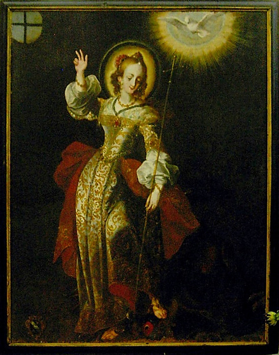 Margaret the Virgin on a painting in the Novacella Abbey, Neustift, South Tyrol, Italy